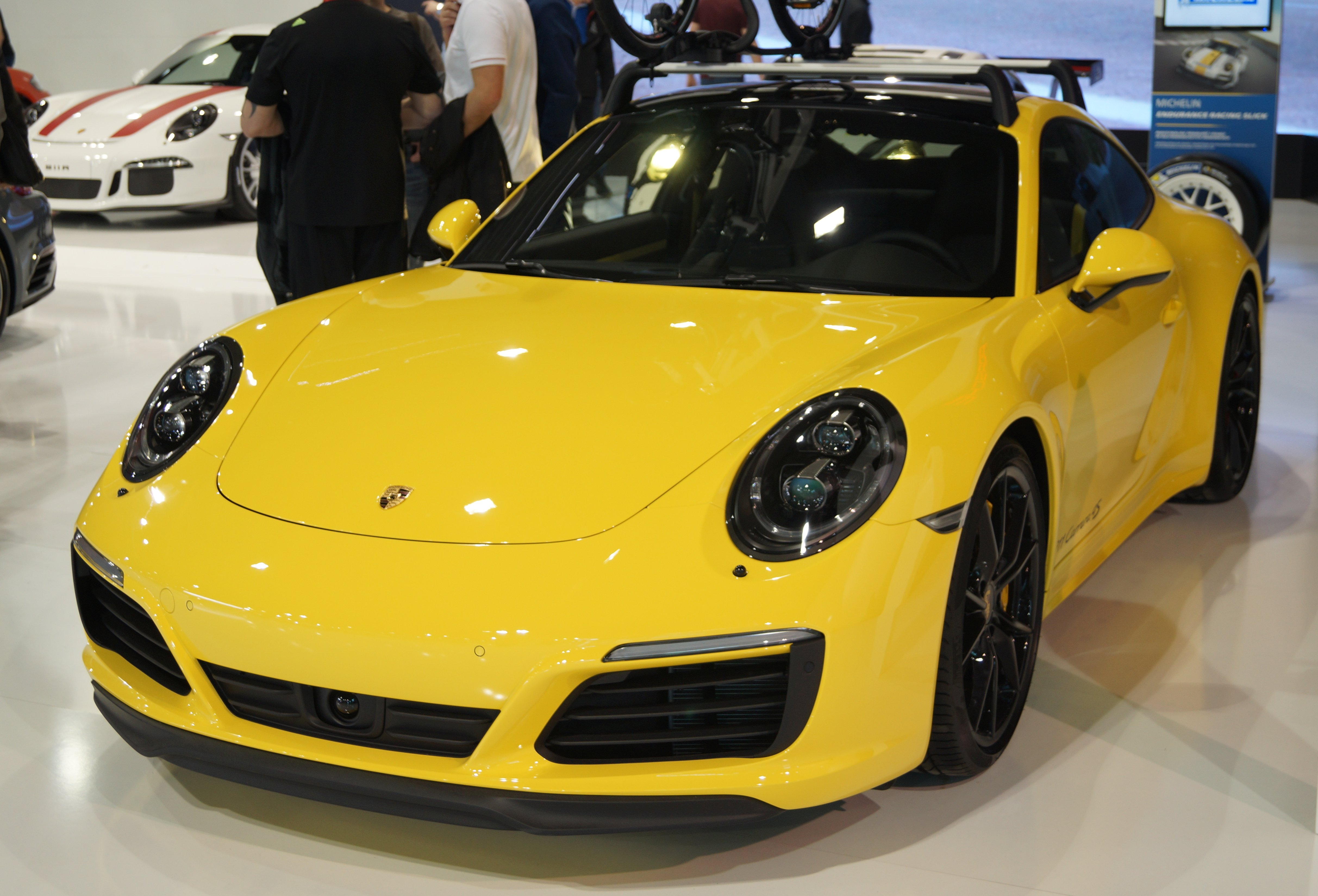 The making of this document was supported by Wikimedia Polska Association, within Wikigrant no. WG 2016-10. Przód Porsche 911 Carrera 4S na Motor Show Poznań 2016